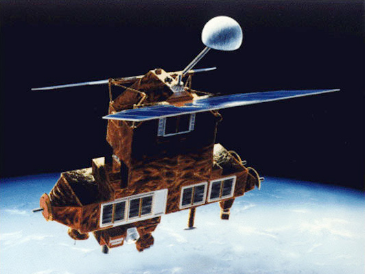 Official NASA publicity drawing